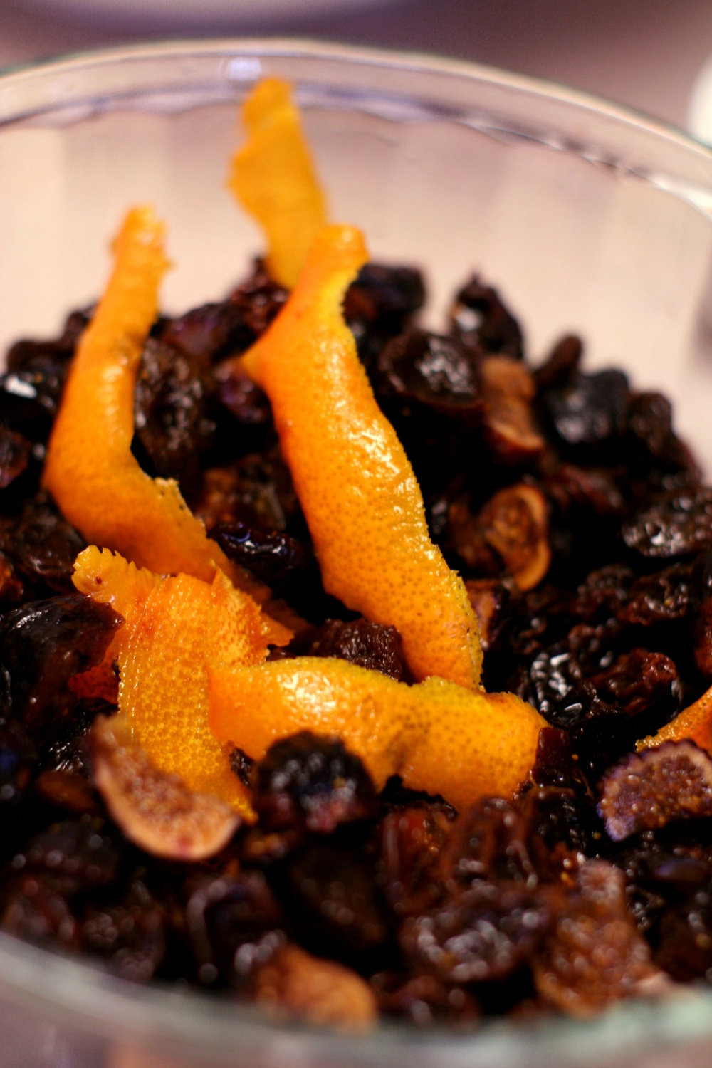 Figs, prunes, orange zest and raisins in rum and apple juice